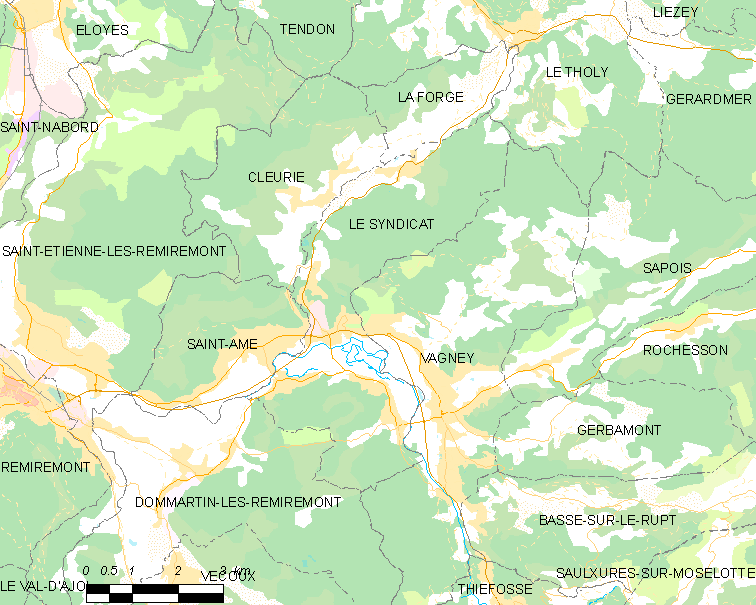 Map of French municipality Le Syndicat